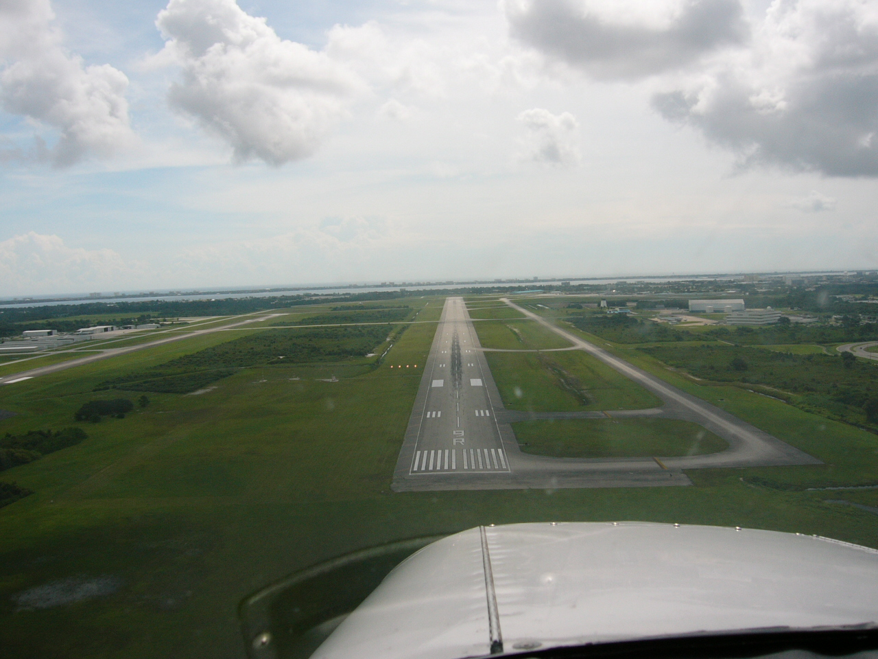 Runway 9R of Melbourne International Airport.